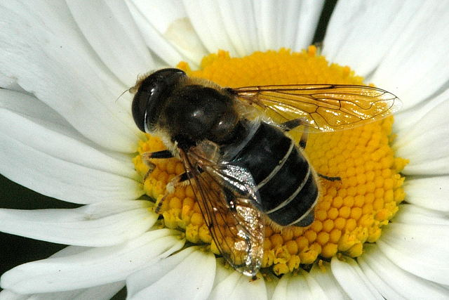 Picture taken in Commanster, Belgian High Ardennes . Species: female Eristalis jugorum